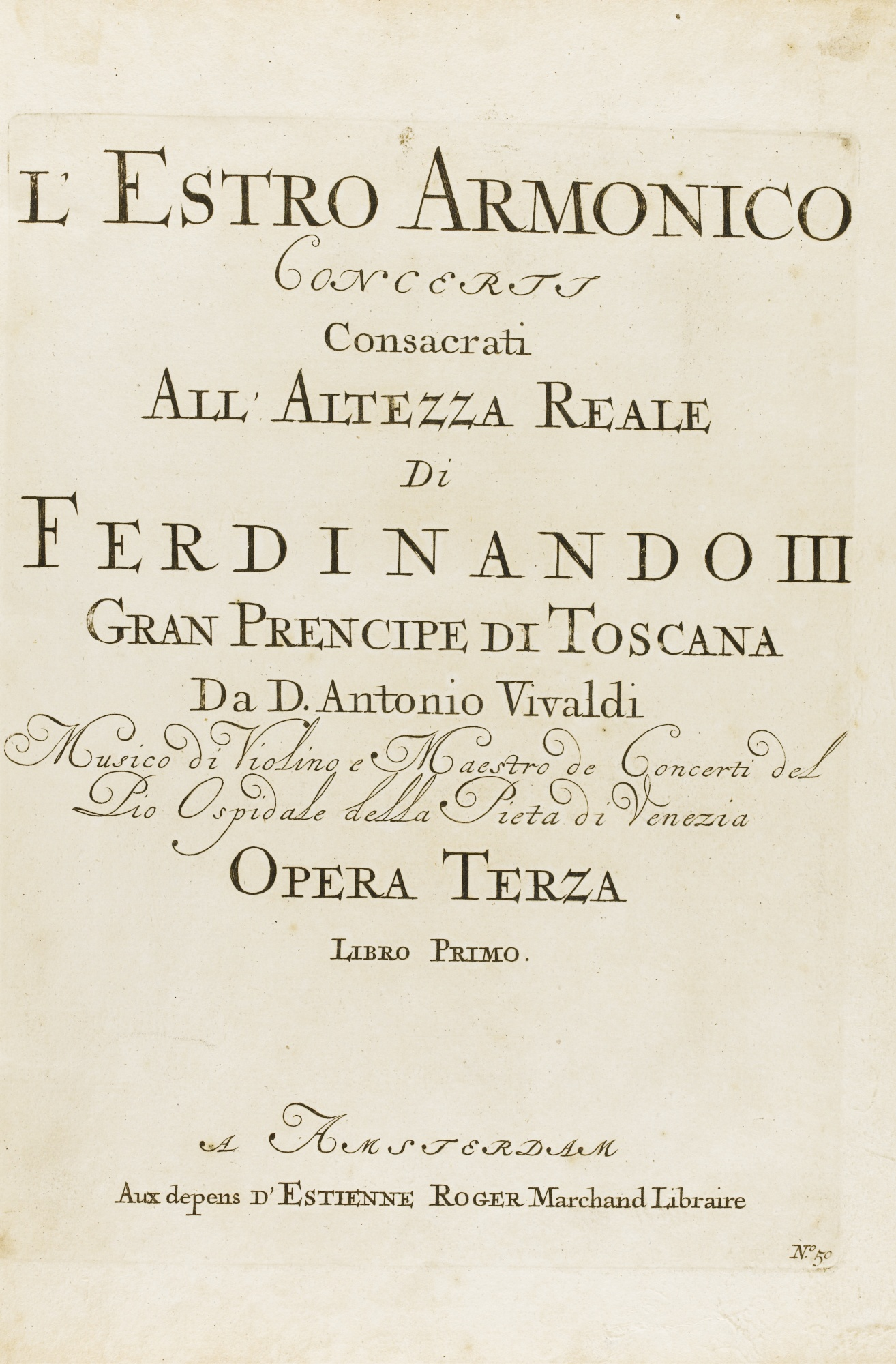 Title page of first edition of l'estro armonico, the collection of concertos by Antonio Vivaldi published in Amsterdam by Etienne Roger